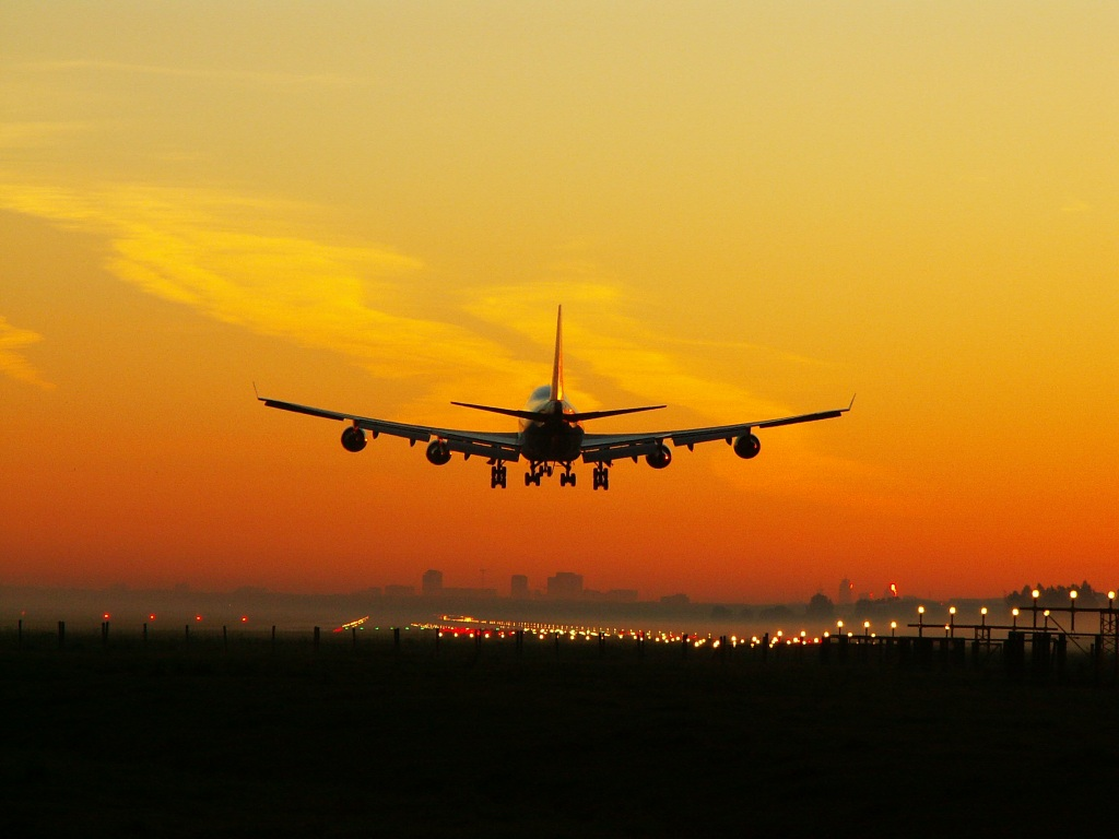 Runway lights and aircraft approaching for touchdown